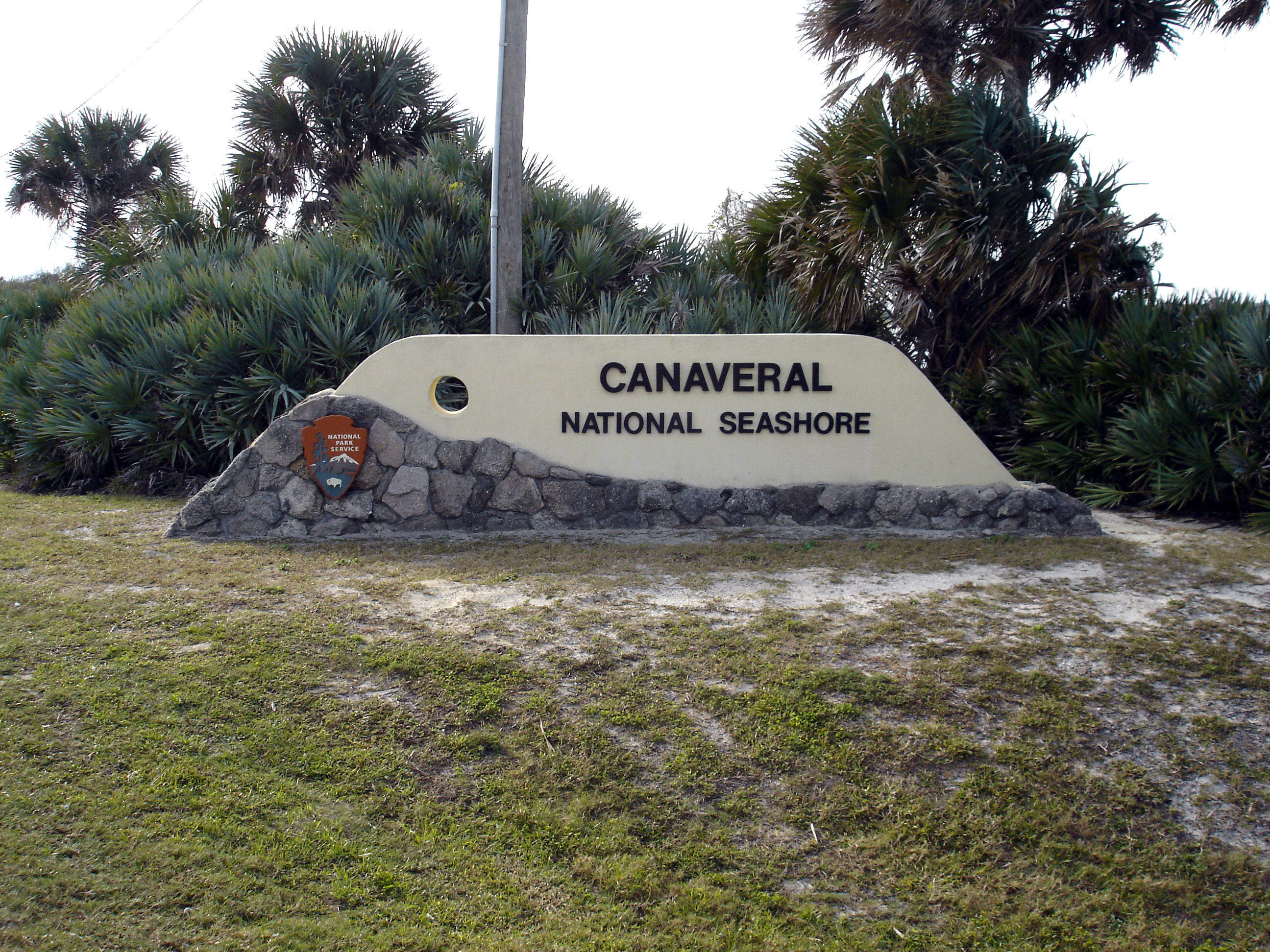 Entrance to Canaveral National Seashore on December 8, 2006. Part of the National Park Service. I, Joneboi, created this picture on 12/8/2006.